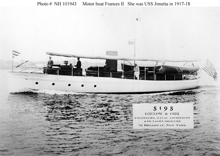 The private motorboat Frances II prior to her United States Navy service as the patrol vessel